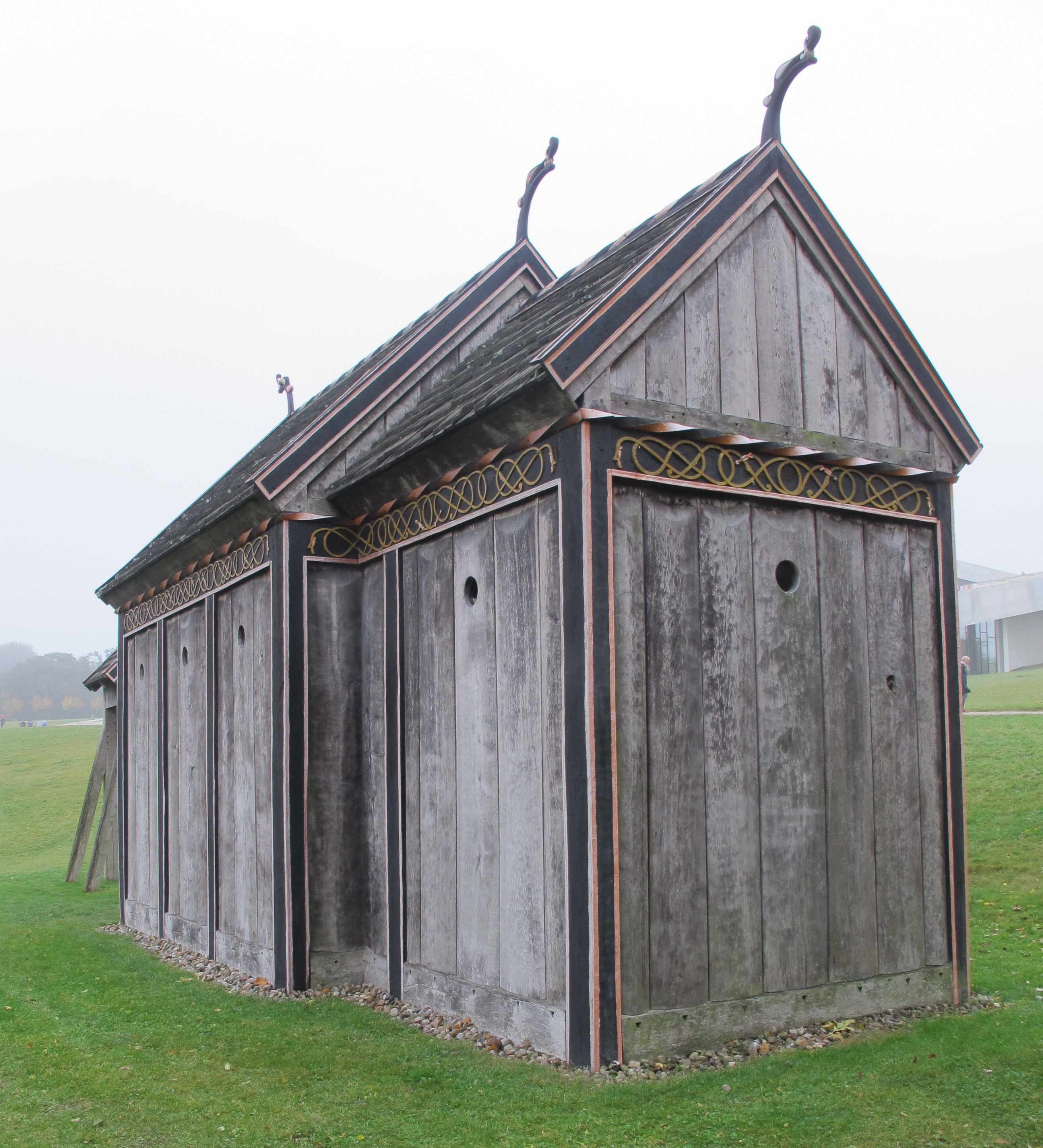 Stave Church - a reconstruction - at Moesgård Aarhus Denmark